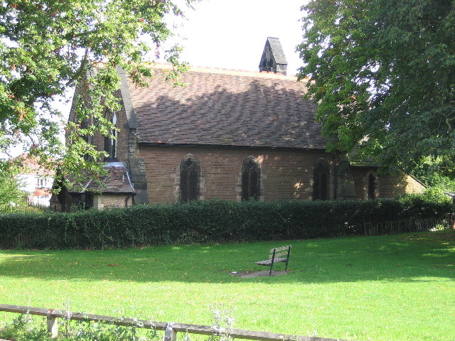 St Editha's parish church, The Green, Amington, Staffordshire, seen from the south